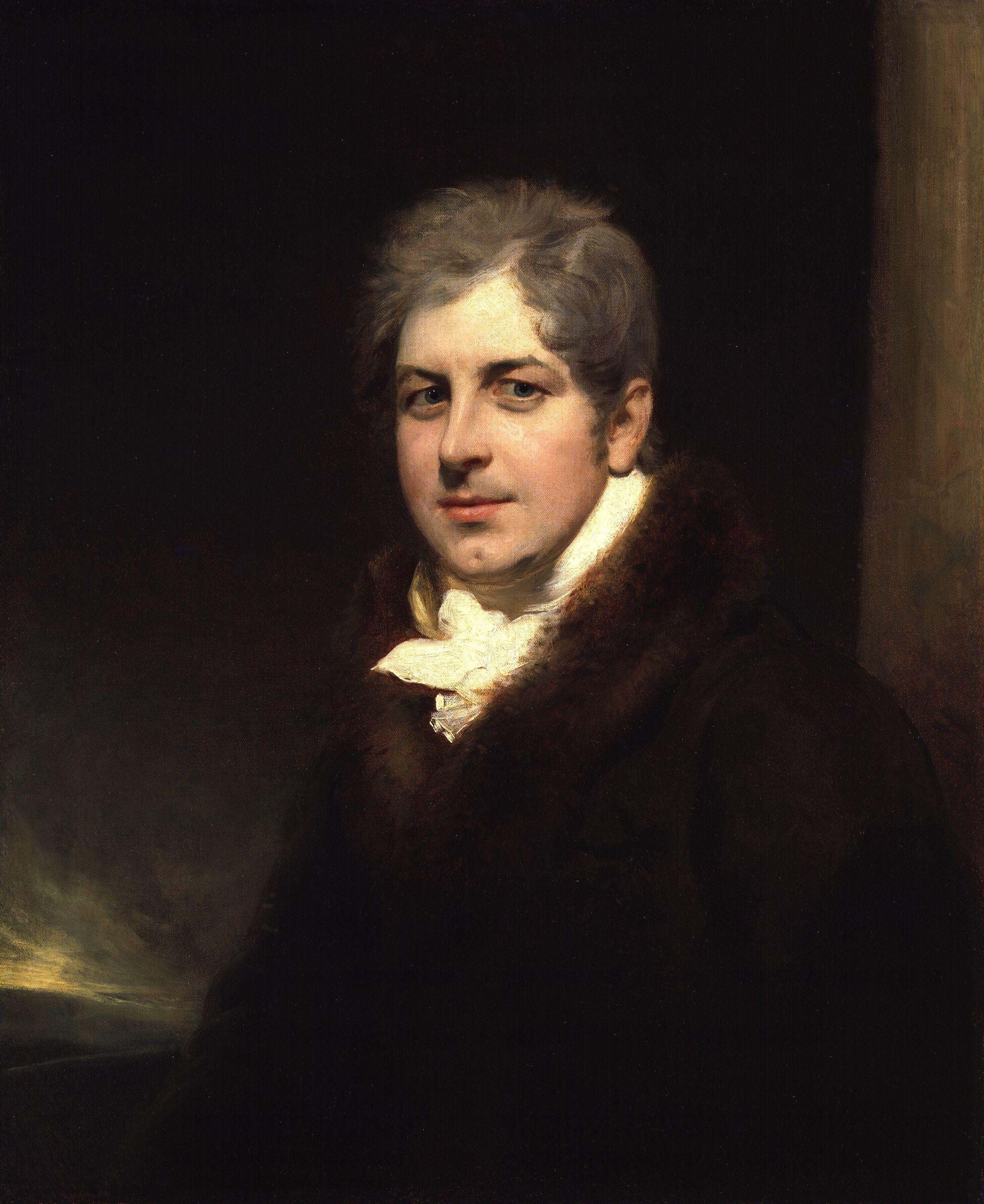 Robert William Elliston, by George Henry Harlow (died 1819). All images in this batch have been confirmed as author died before 1939 according to the official death date listed by the NPG.